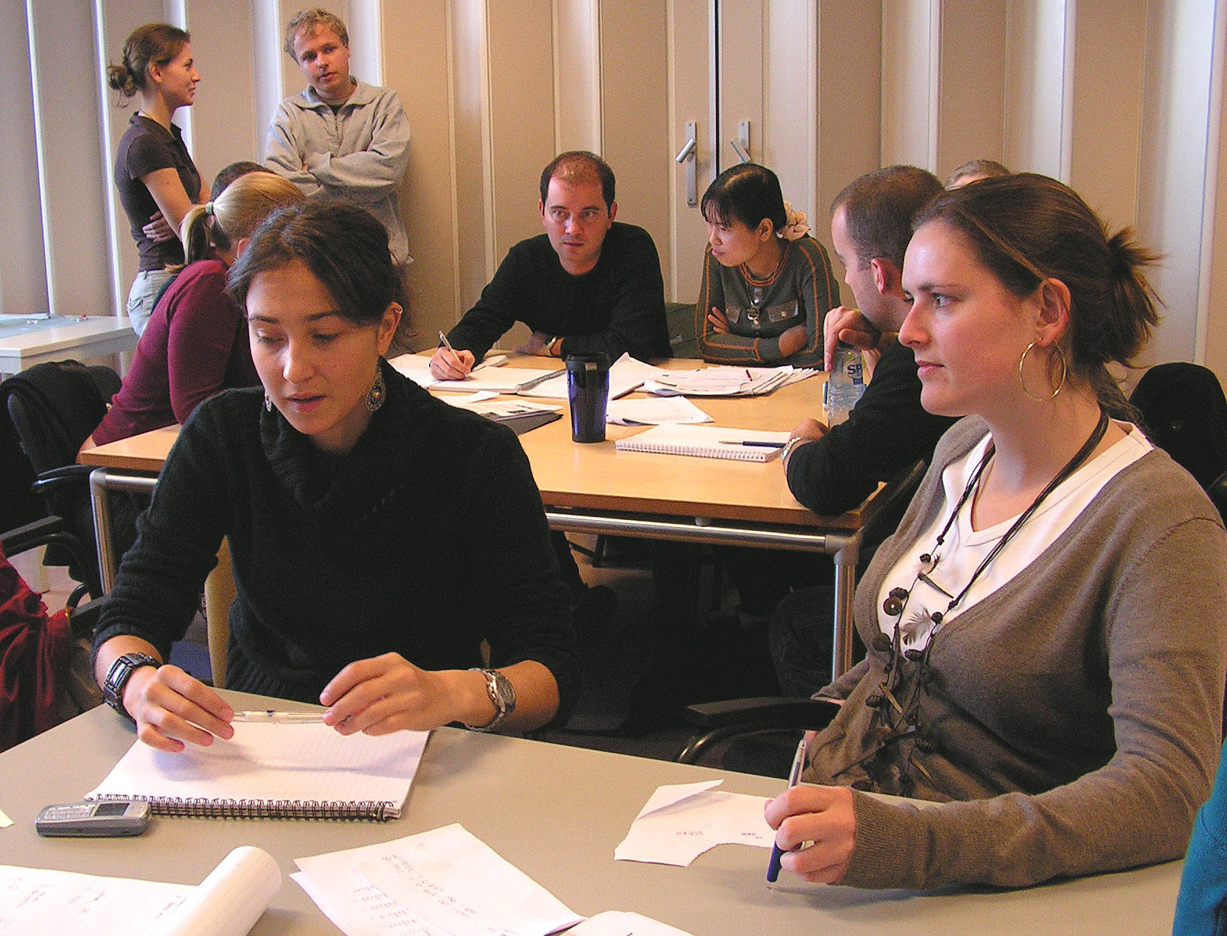 Students of the MSc Programme Environment and Resource Management participate in the fisheries game to experience the causes of resource depletion.